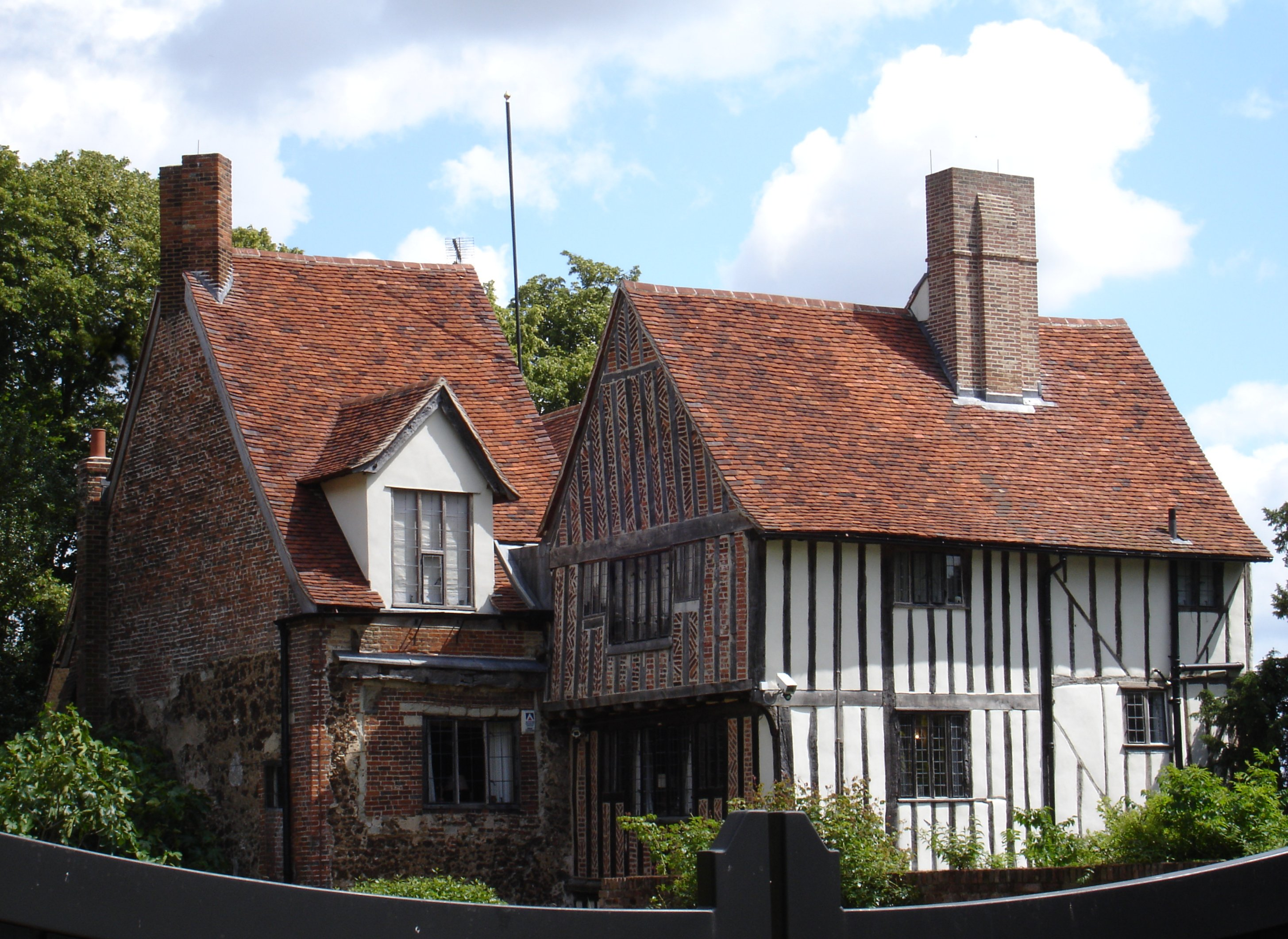 Photograph of Beeleigh Abbey, Essex, England